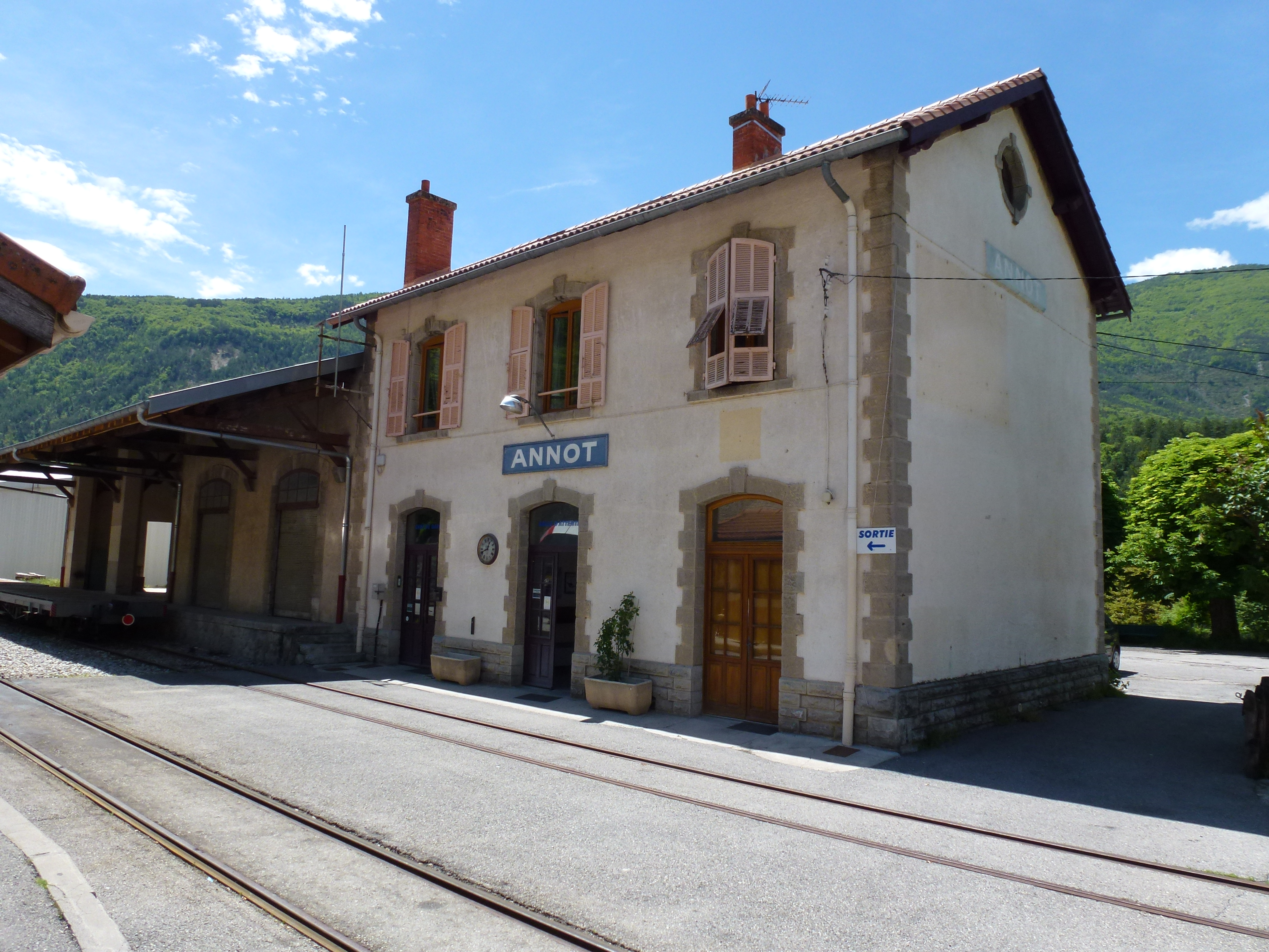 Railway station Annot, Provence, France